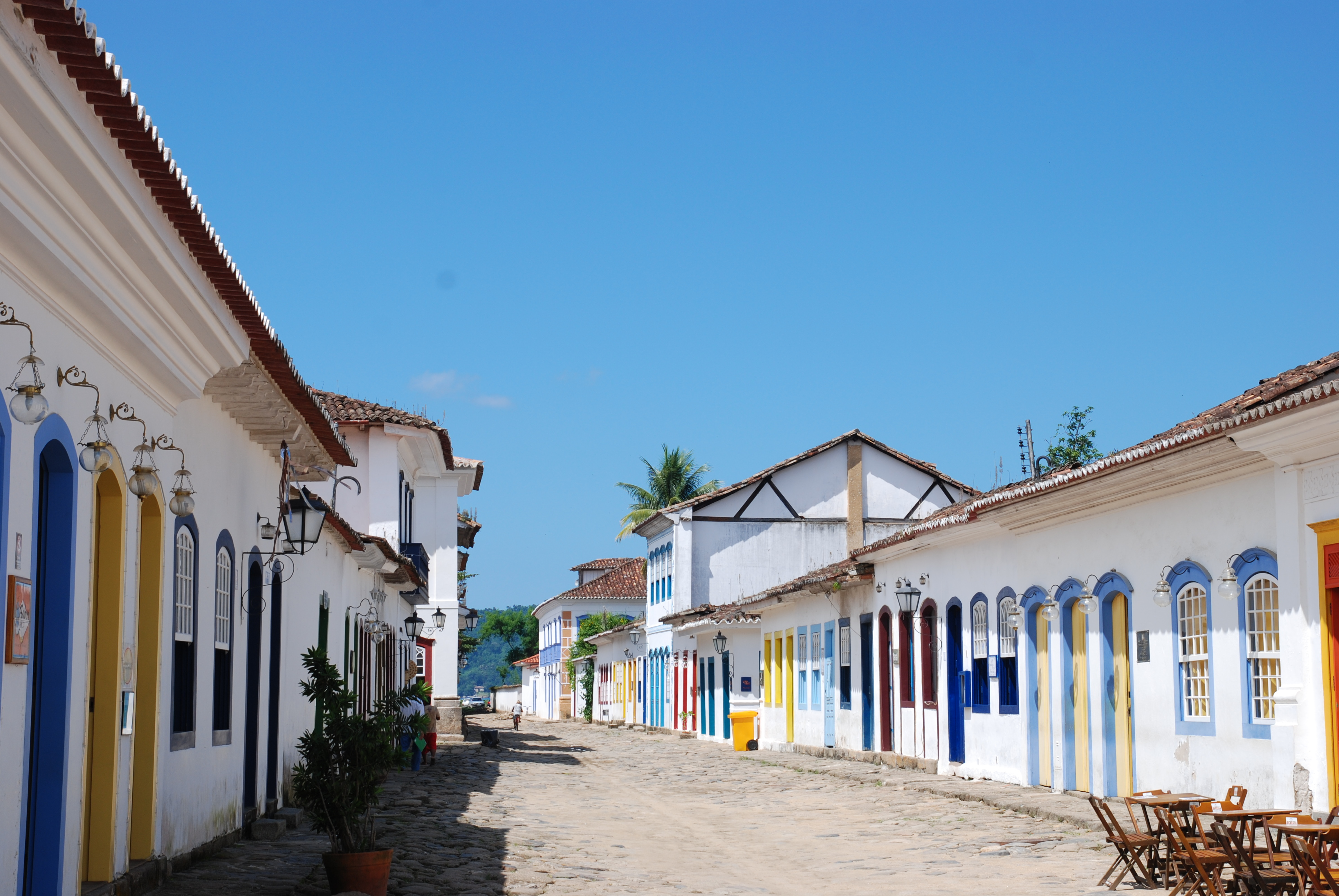 Wide street in the touristy colonial city of Paraty, Rio de Janeiro state, Brazil